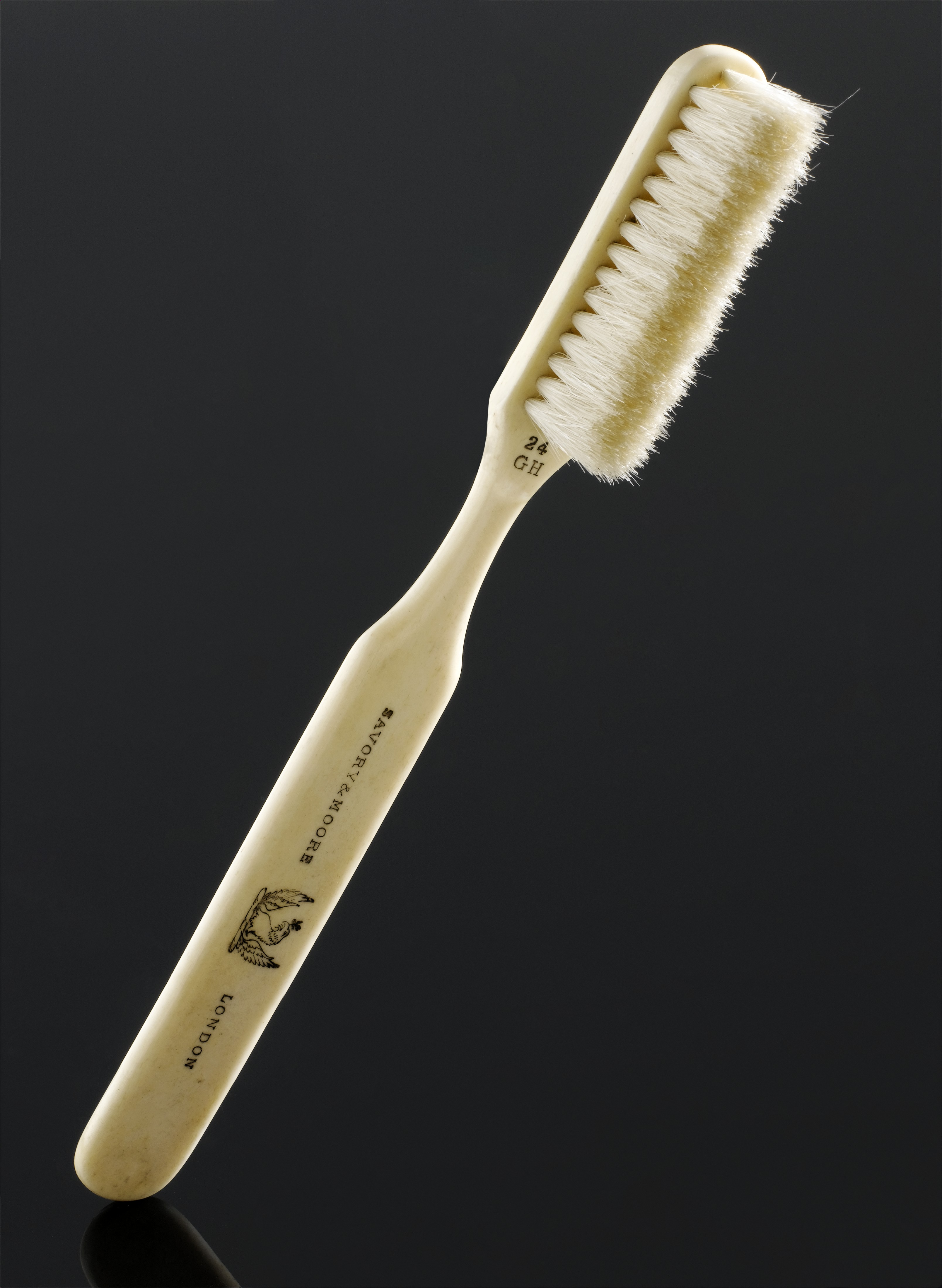 Since 1800, the toothbrush has been the most popular way to clean teeth. Sold by Savory & Moore, a manufacturing chemist based in London, the handle of this toothbrush is made from plastic. The circular head is made from bristles, which probably came from animal hair. Modern toothbrush heads are made from nylon. maker: Savory and Moore Limited Place made: London, Greater London, England, United Kingdom Wellcome Images Keywords: toothbrush; Hygiene; Dentistry